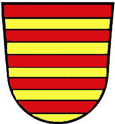 Self made coat of arm of the Grafen von Rieneck